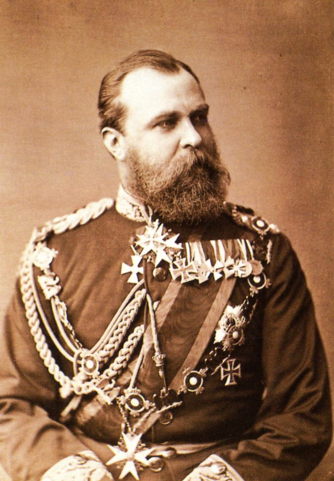 Photo by unknown of Grand Duke Ludwig IV of Hesse and by Rhine. Hesse, Darmstadt, German Empire, 1878. Photo comes from my collection and was scanned by me. Mrlopez2681 05:53, 3 December 2006 (UTC)